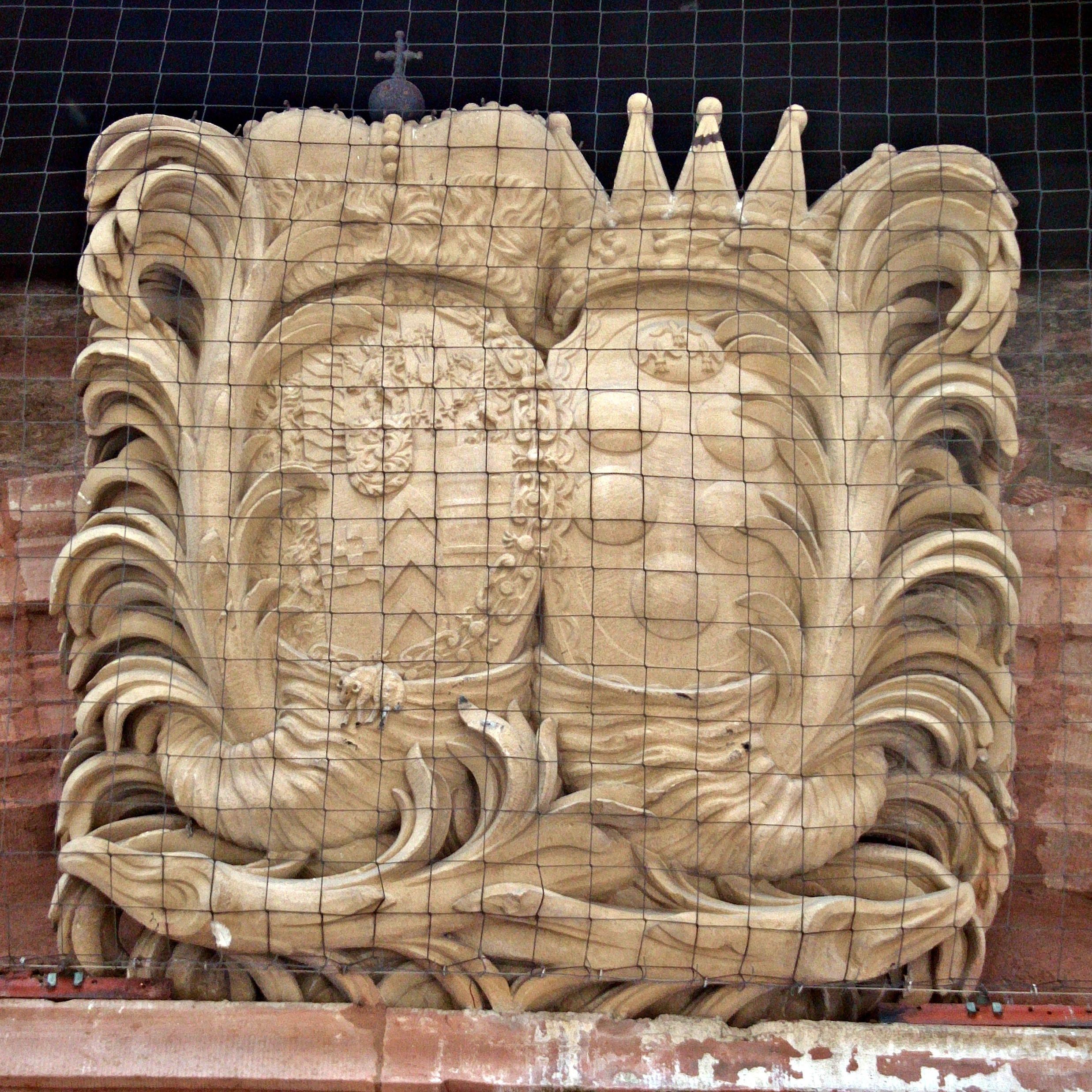 Heiliggeistkirche Heidelberg, Südportal zum Chor, Allianzwappen von Kurfürst Johann Wilhelm und Gemahlin Anna Maria de Medici